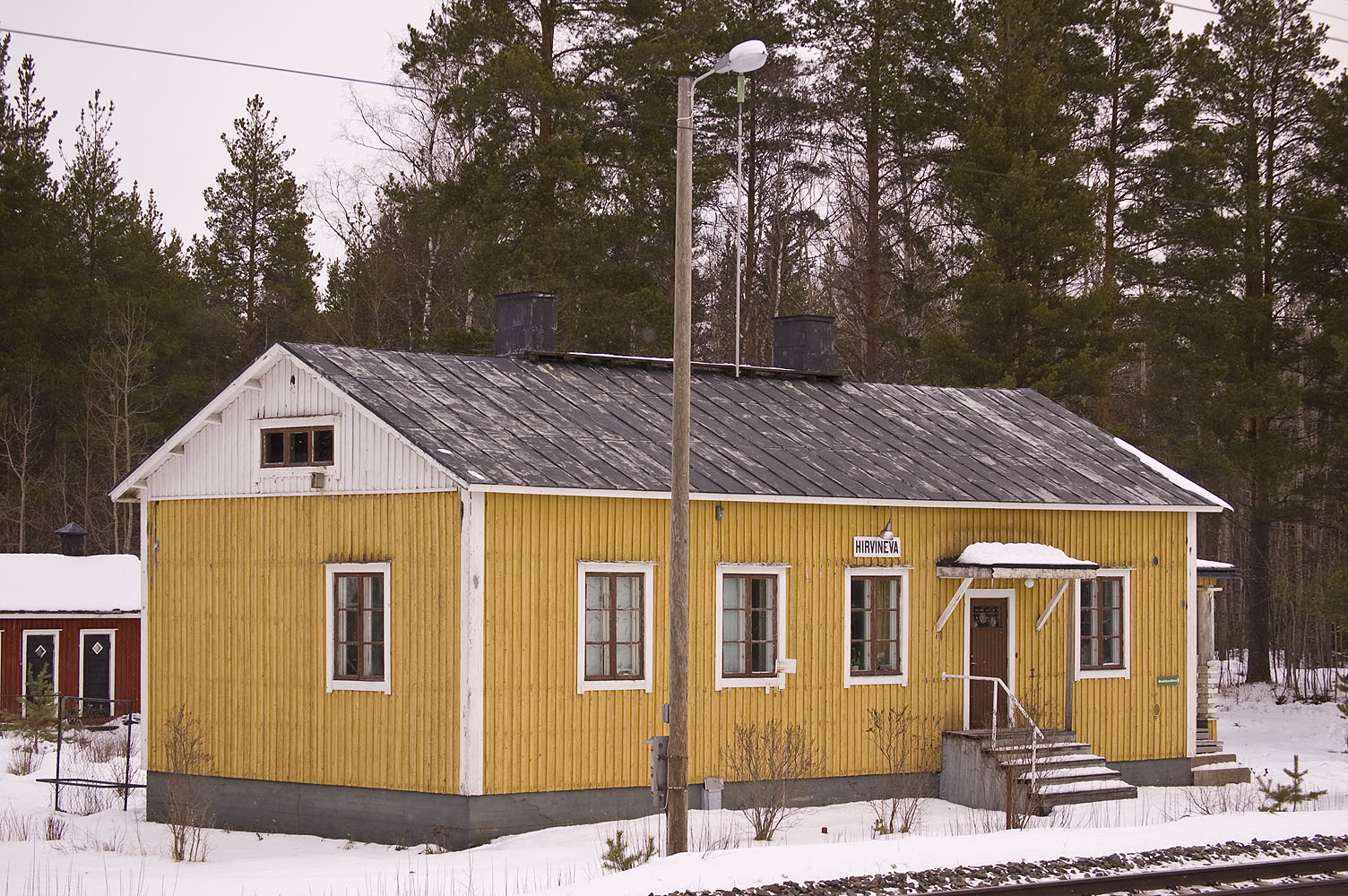 Hirvineva railway station, Hirvineva, Liminka, Finland.